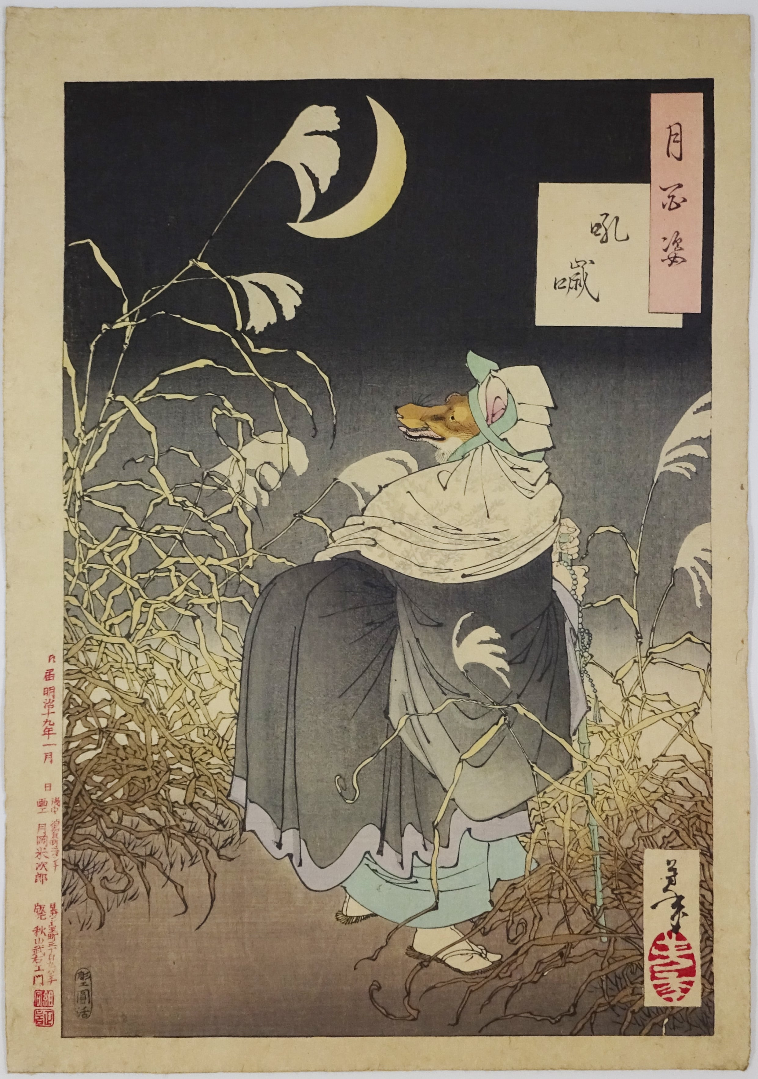 The cry of the fox (Konkai)